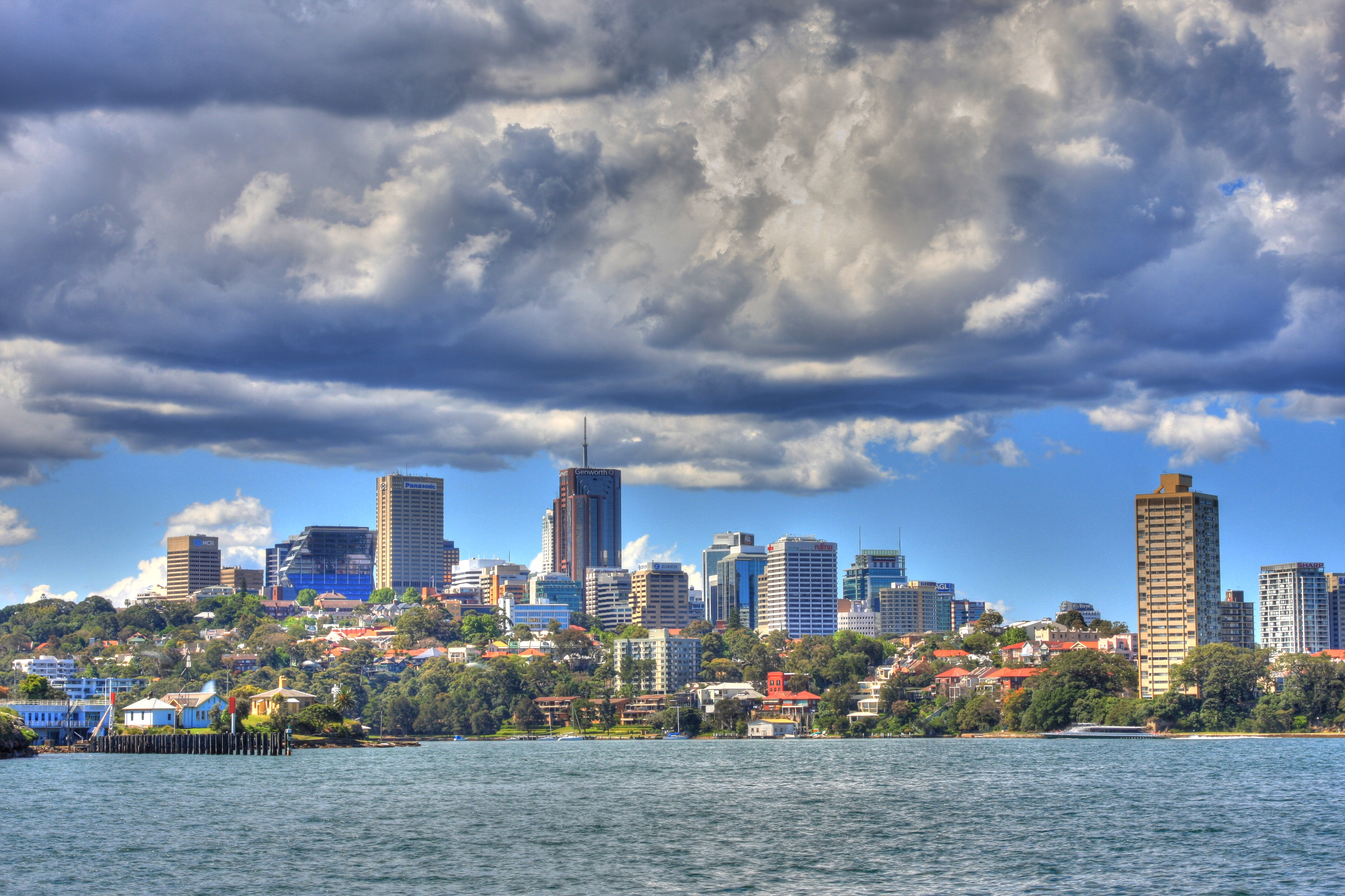 Taken from Balmain looking towards Lavender Bay and North Sydney